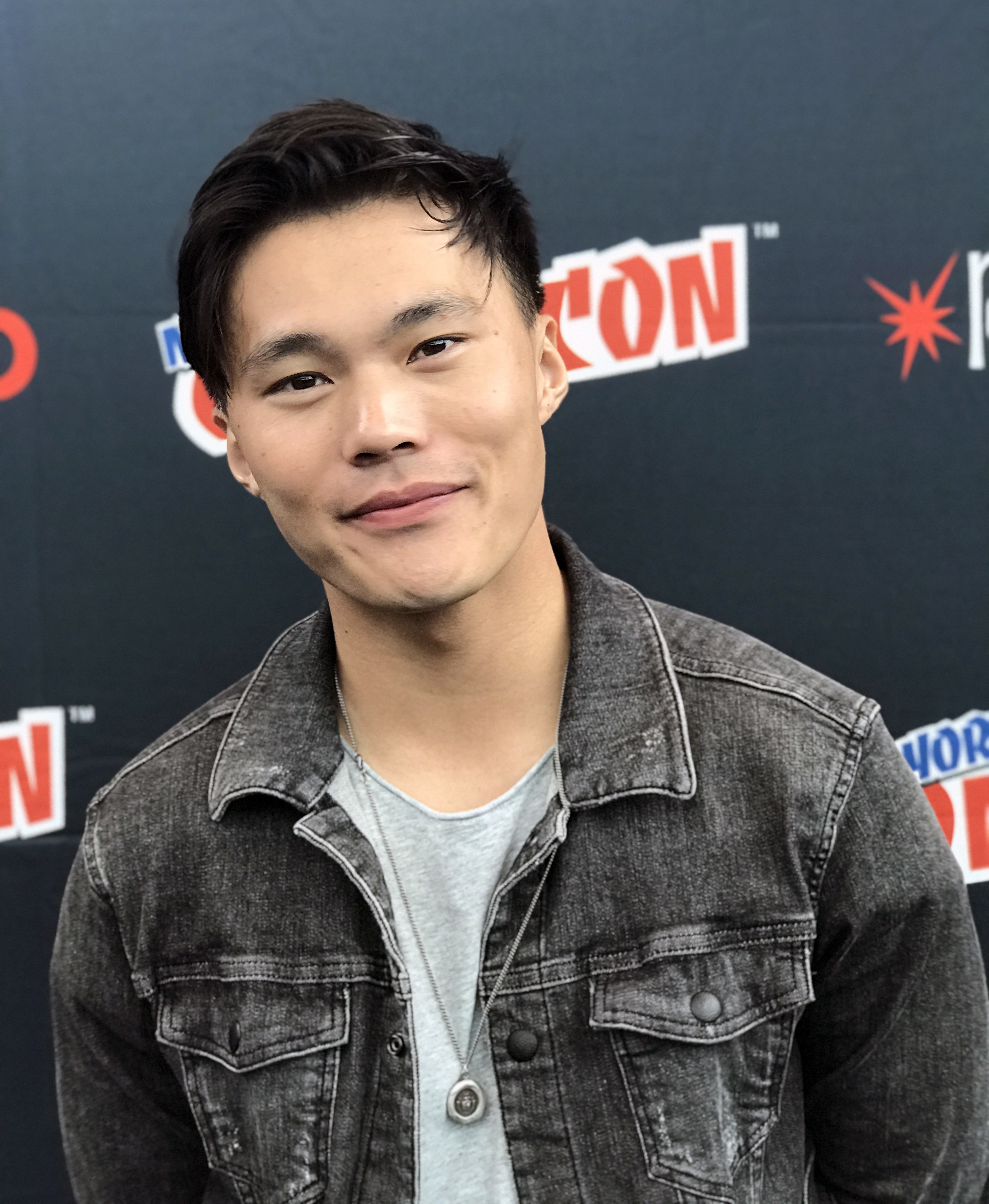 Australian actor John Kim at the Electric Entertainment Press Room, where the TV series The Librarians and the film Bad Samaritan were being promoted, on Thursday, October 5, 2017 at the Jacob K. Javits Convention Center in Manhattan, Day 1 of the 2017 New York Comic Con. This photo was created by Luigi Novi. It is not in the public domain, and use of this file outside of the licensing terms is a copyright violation.